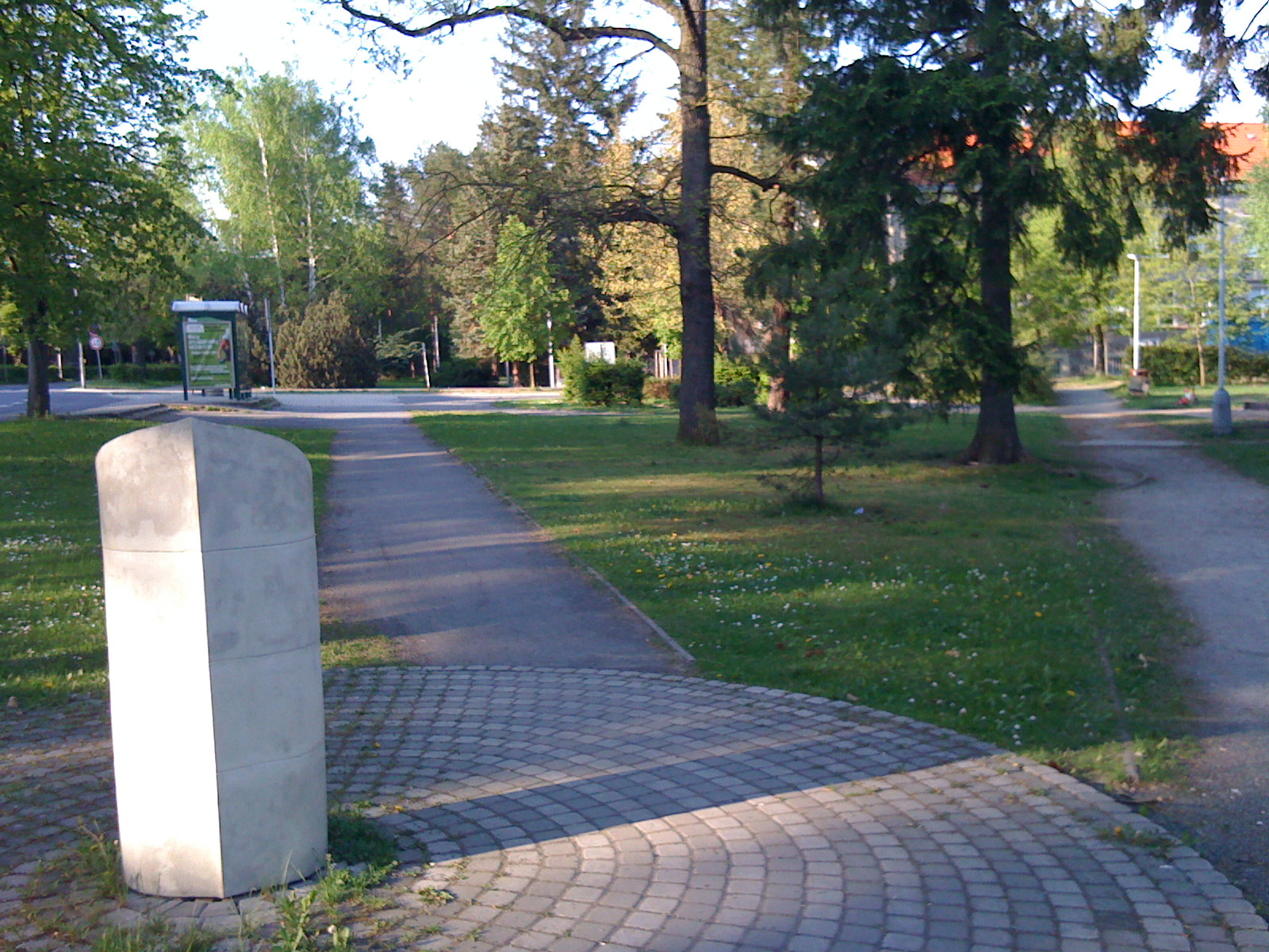 Hedvika Vilgusová Square in Prague 9-Klánovice, Czech Republic